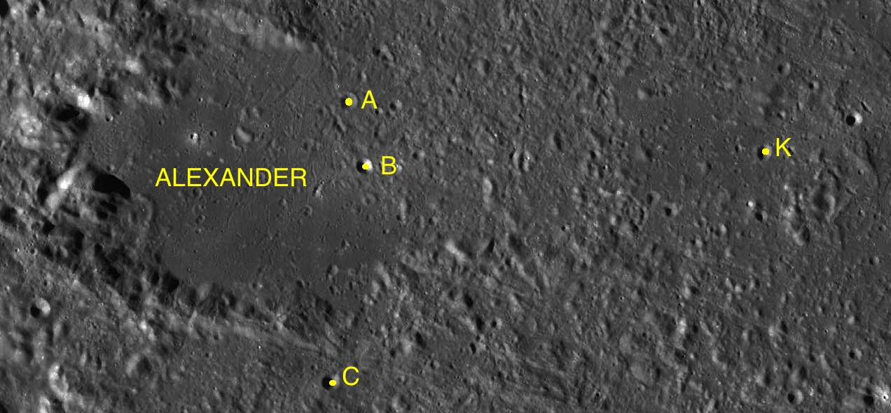 Part of the chart LAC-26 used for the presentation.